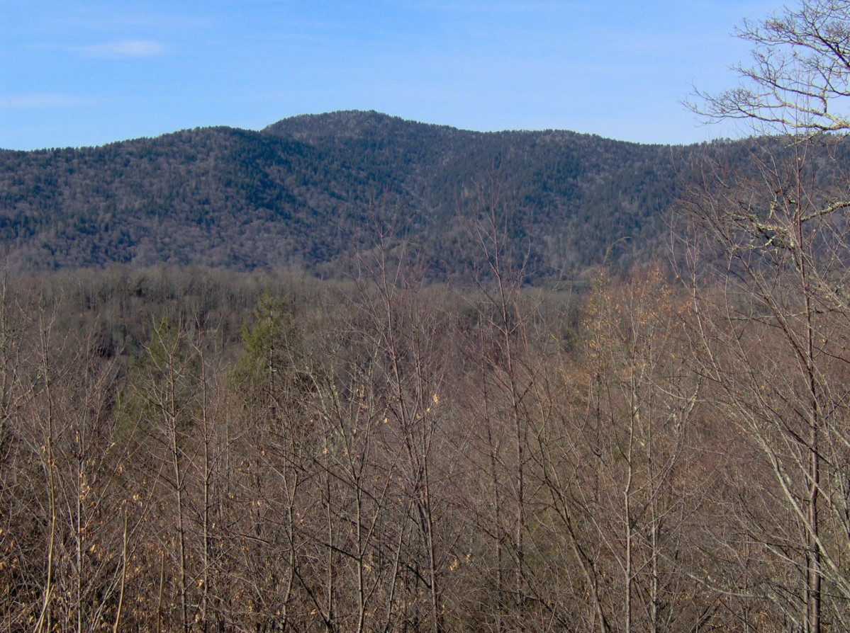 Mount Collins (el. 6,188 feet/1,886 meters) in the Great Smoky Mountains, looking northwest from Newfound Gap Road. Mount Collins is situated along the Appalachian Trail between Clingman's Dome and Newfound Gap.